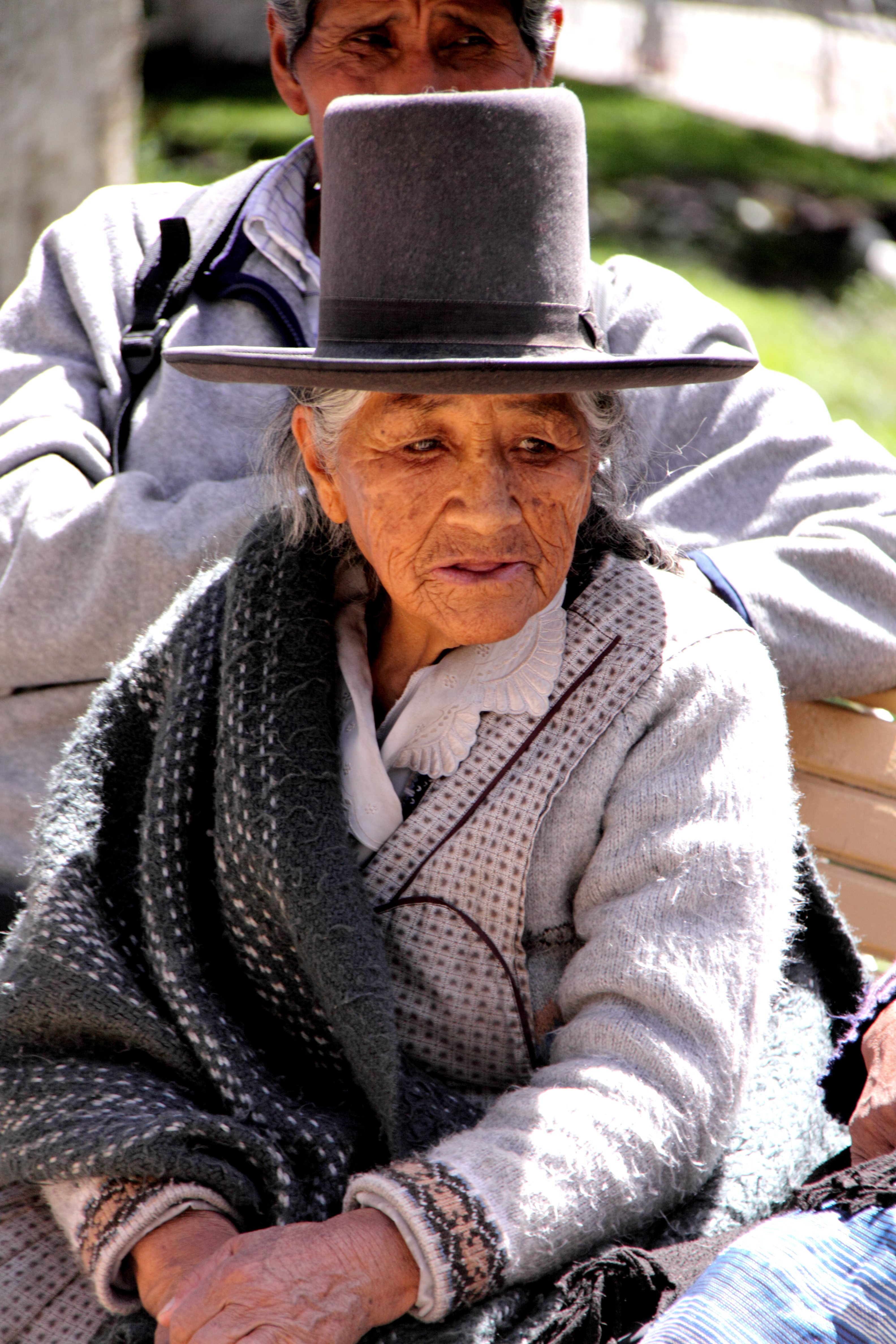 bolivia, potosi, women in traditional dress